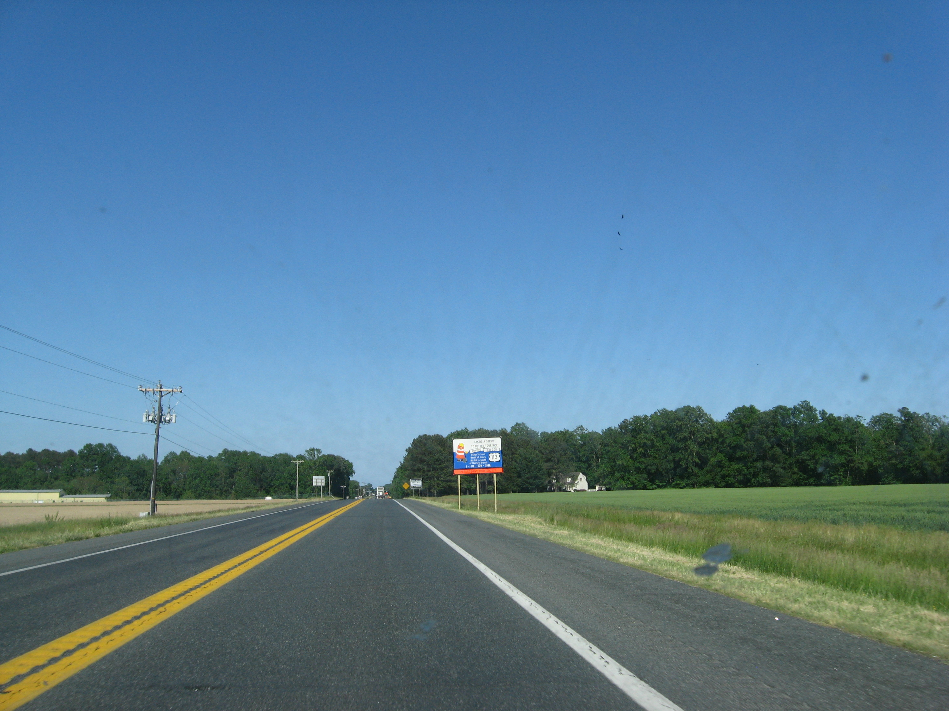 Northbound view of one of the remaining two-lane stretches of US 113 (as of May 2010) south of Newark, MD.